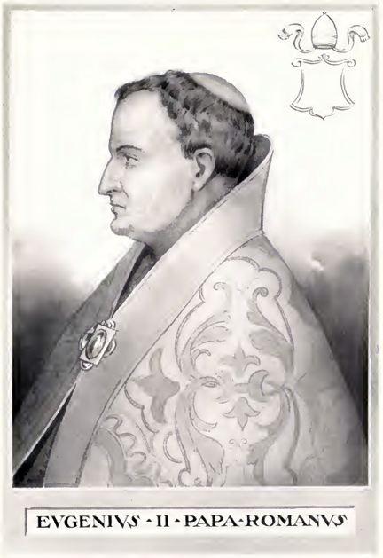 This illustration is from The Lives and Times of the Popes by Chevalier Artaud de Montor, New York: The Catholic Publication Society of America, 1911. It was originally published in 1842.